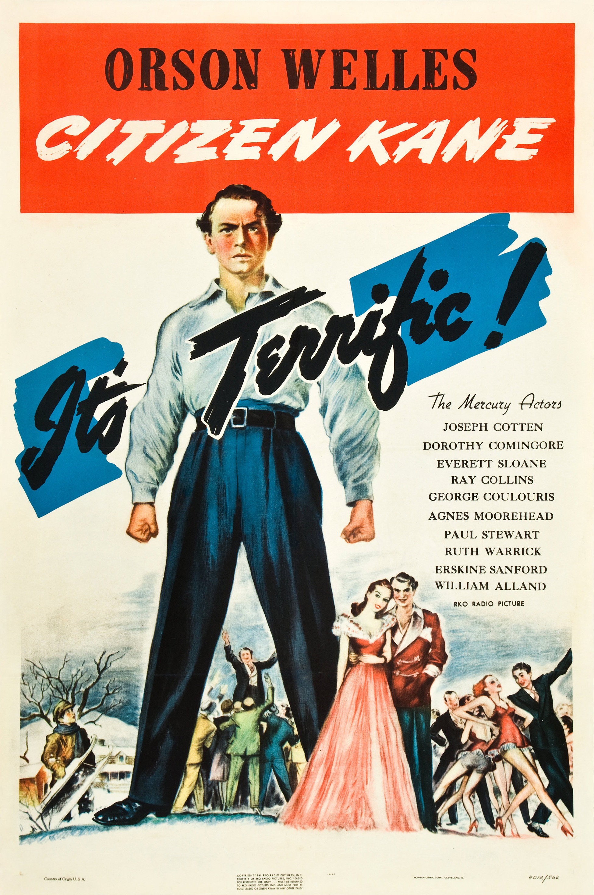 Theatrical poster for the American release of the 1941 film Citizen Kane. This design is designated "Style B". This image is a scan of a restored original poster.